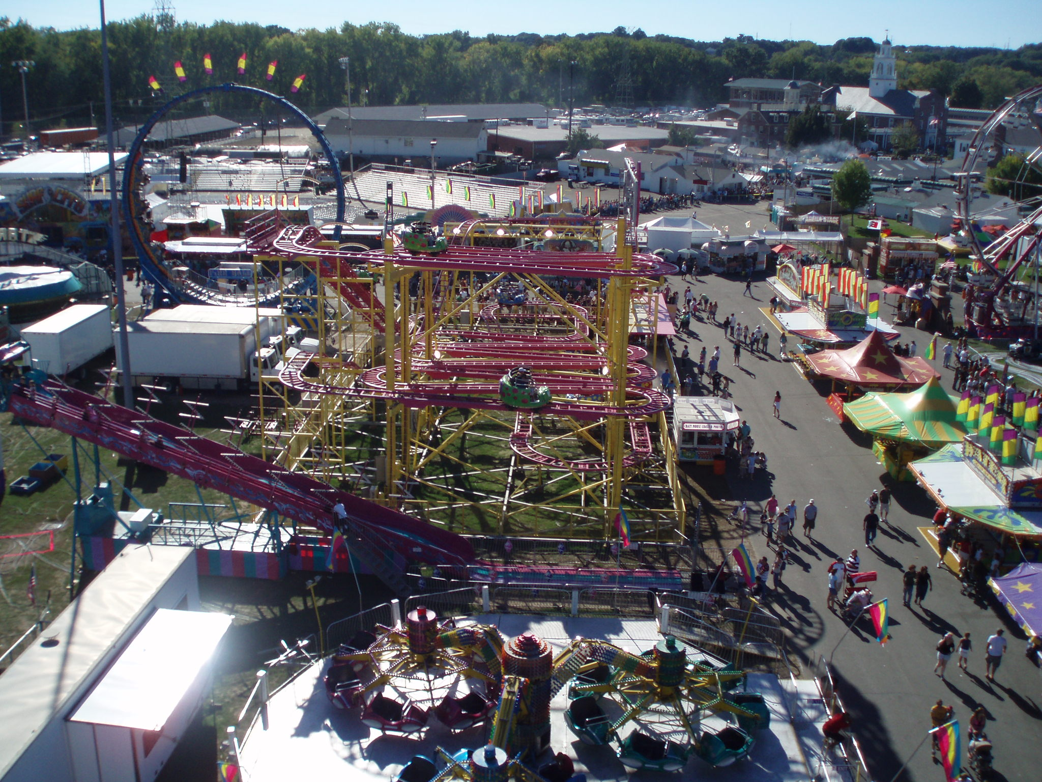 Big E fair in Springfield, MA on September 23, 2007